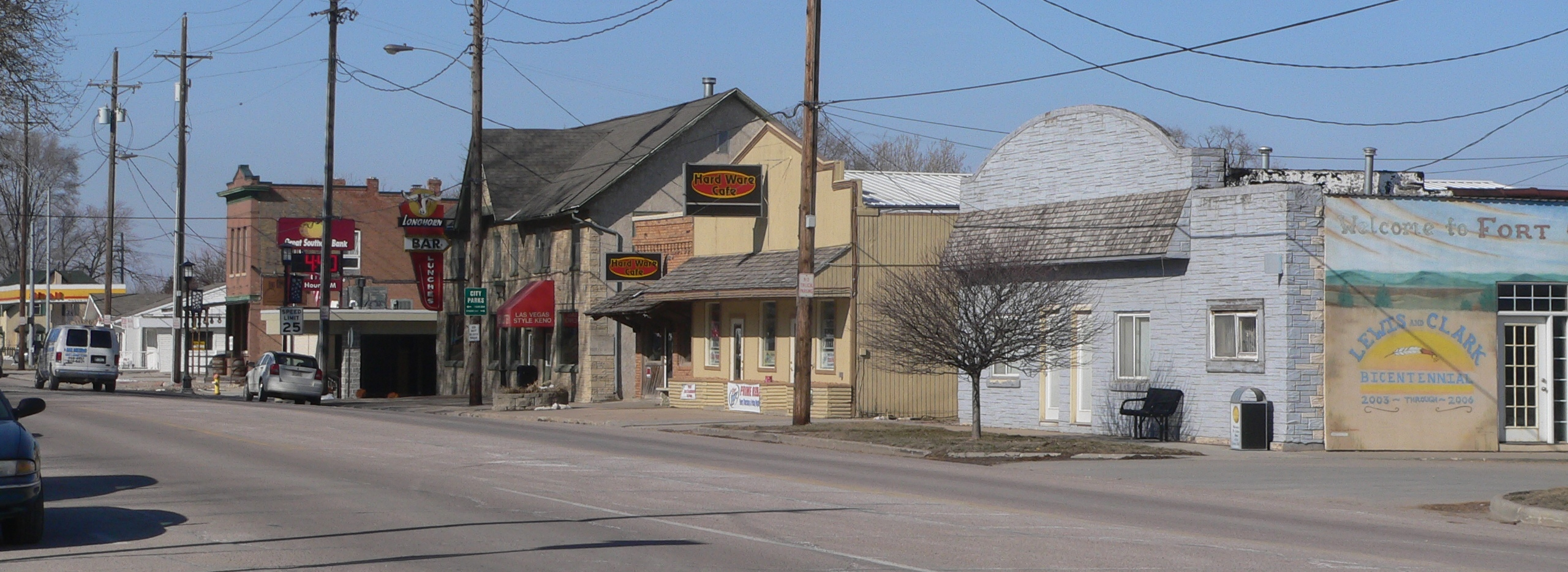 Downtown Fort Calhoun, Nebraska: east side of U.S. Highway 75, looking northeast.